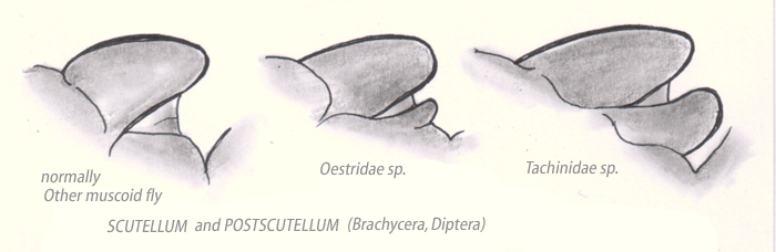 Scutellum and postscutellum, Brachycera, Diptera. A drawing by Halvard from Norway.